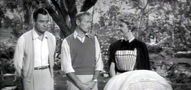 Cropped screenshot of Gig Young, Richard Widmark and Doris Day from the trailer for the film The Tunnel of Love (1958).